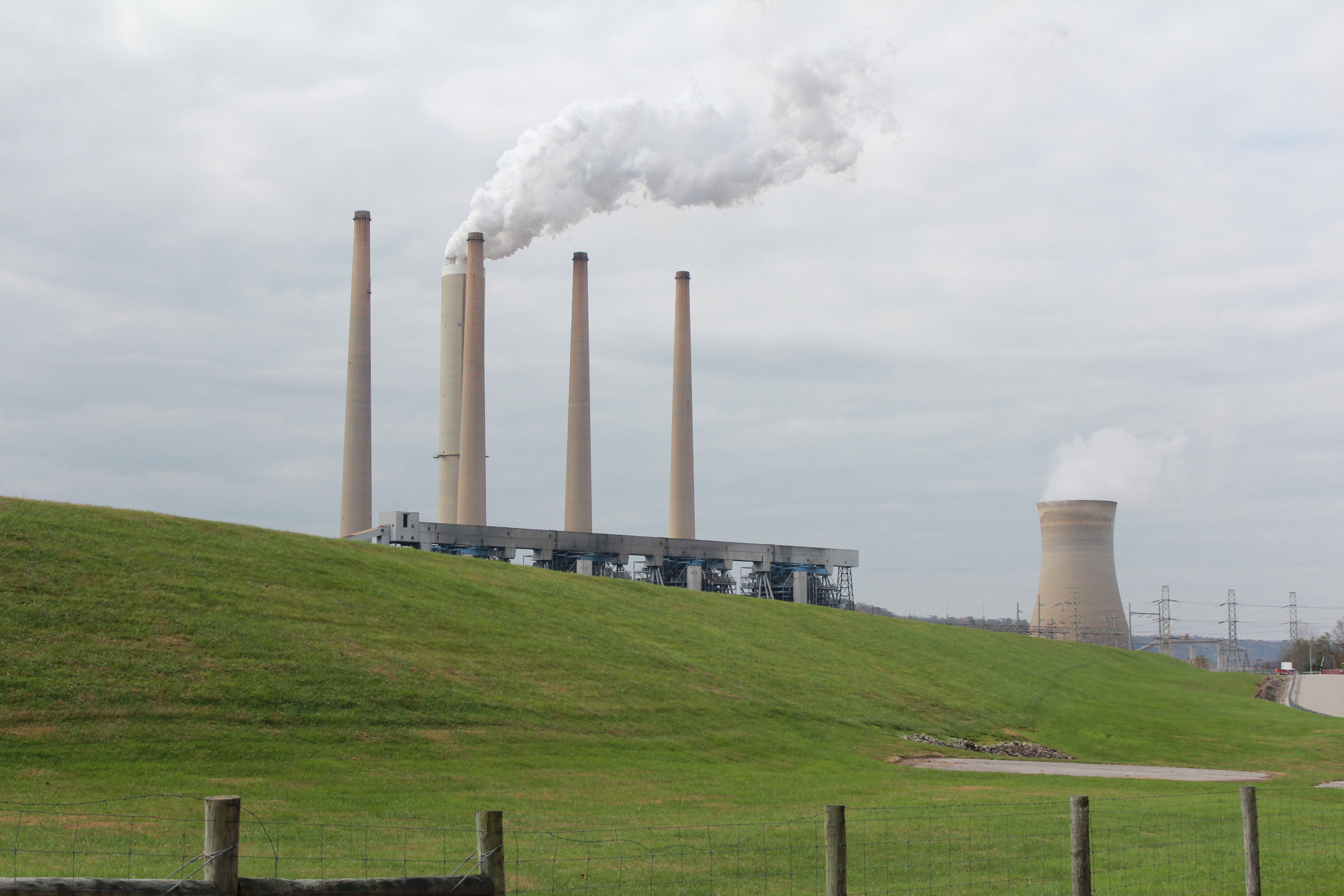 This is J.M. Stuart Station, a coal-fired power plant in Adams County, Ohio.